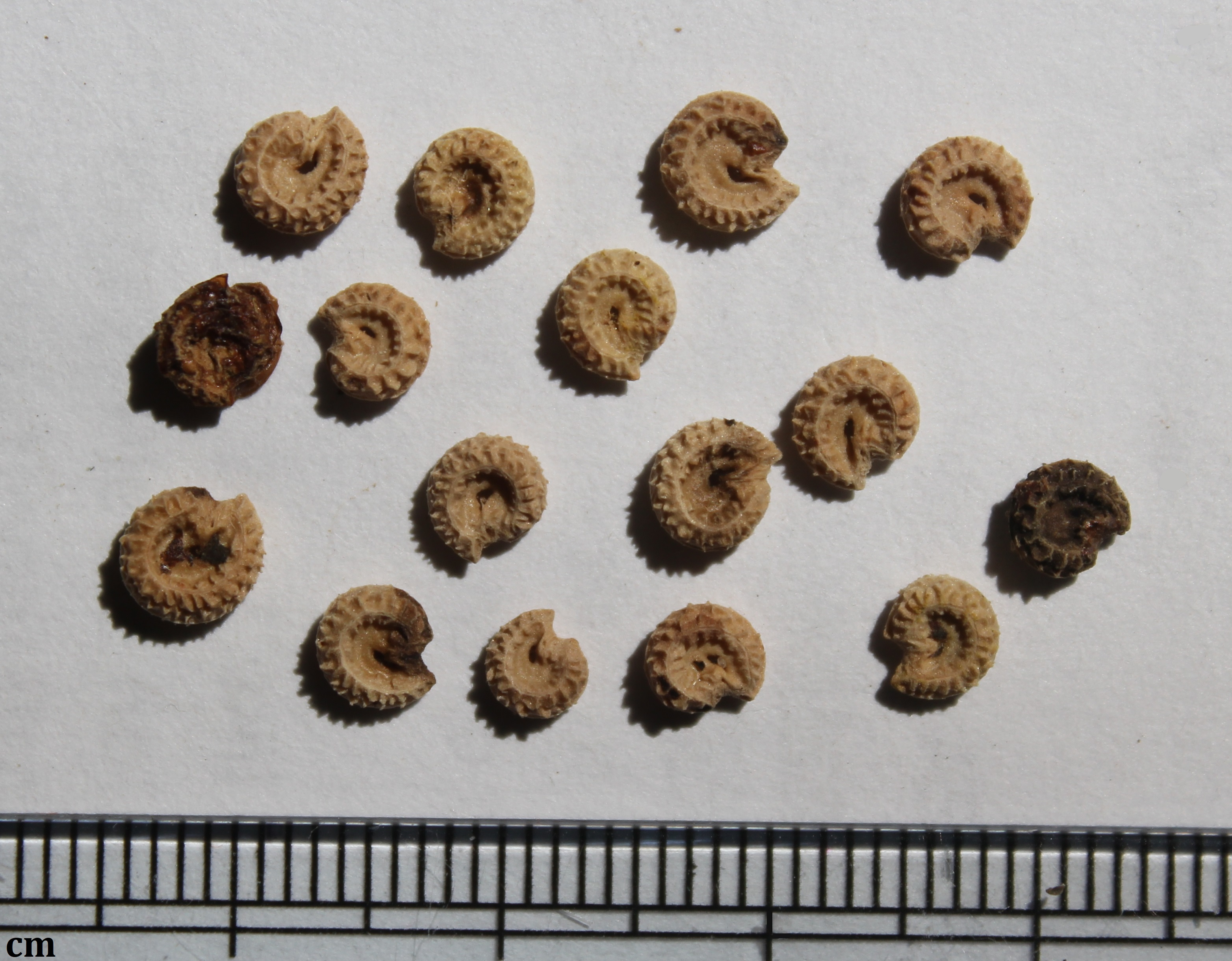 Cocculus carolinus seeds.